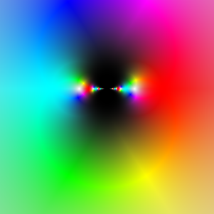 Color wheel graph of complex function sin(1/z)